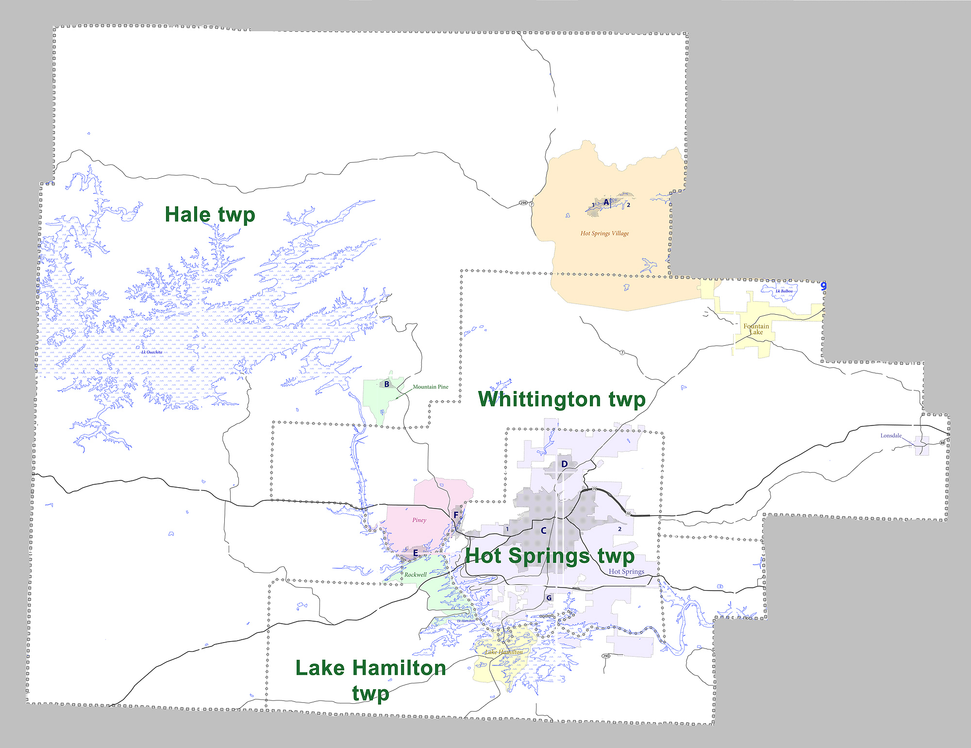 Large map showing townships in Garland County, Arkansas. Modified from US census map (for 2010 census) for Garland County, Arkansas